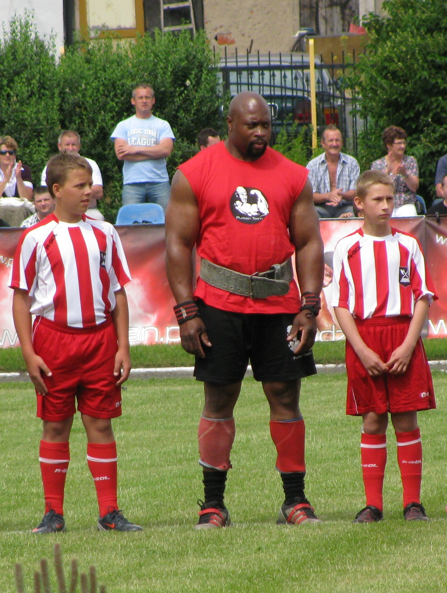 Mark Felix - a strength athlete from England, during Europe's Strongest Man 2009 competition.